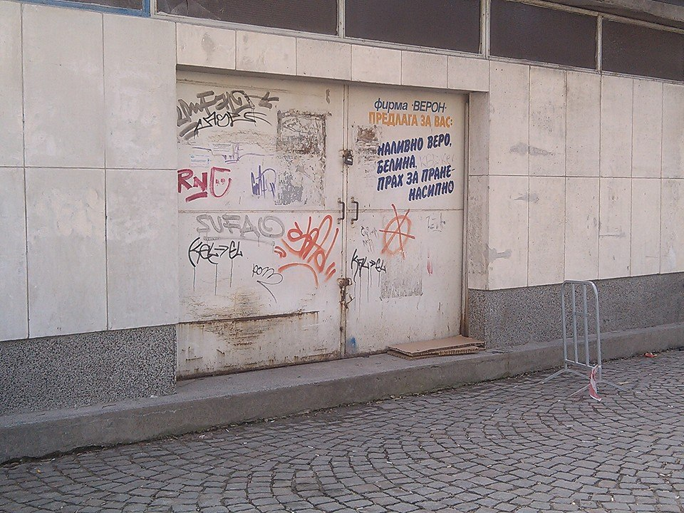 A former store for laundry detergents at the market hall of Rousse, Bulgaria.